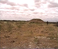 Caynabo Ruins